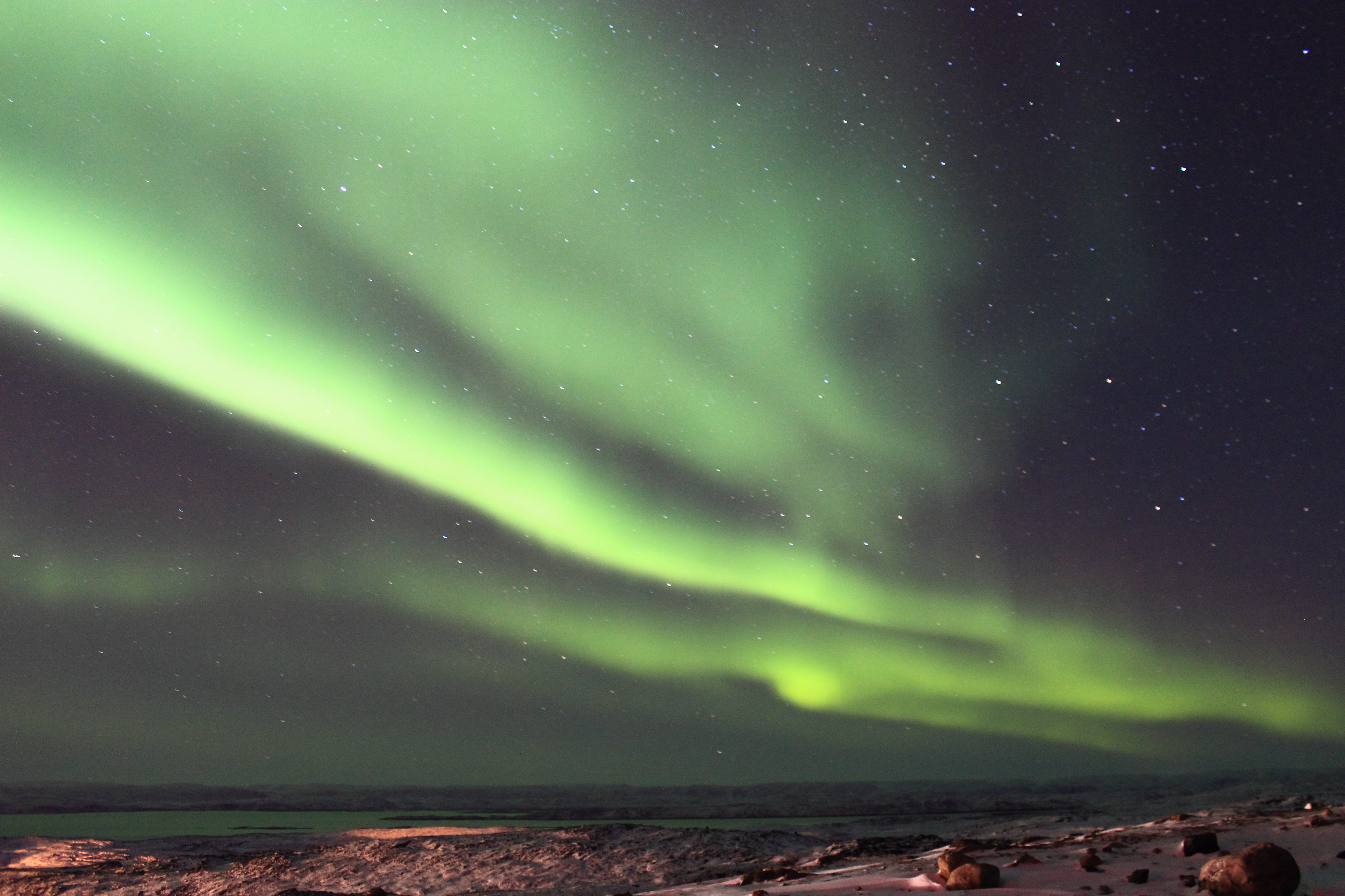 Iqaluit skies